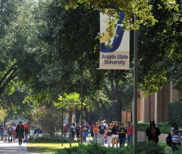 The Mall at Angelo State University